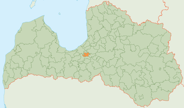 Map of Salaspils municipality, Latvia